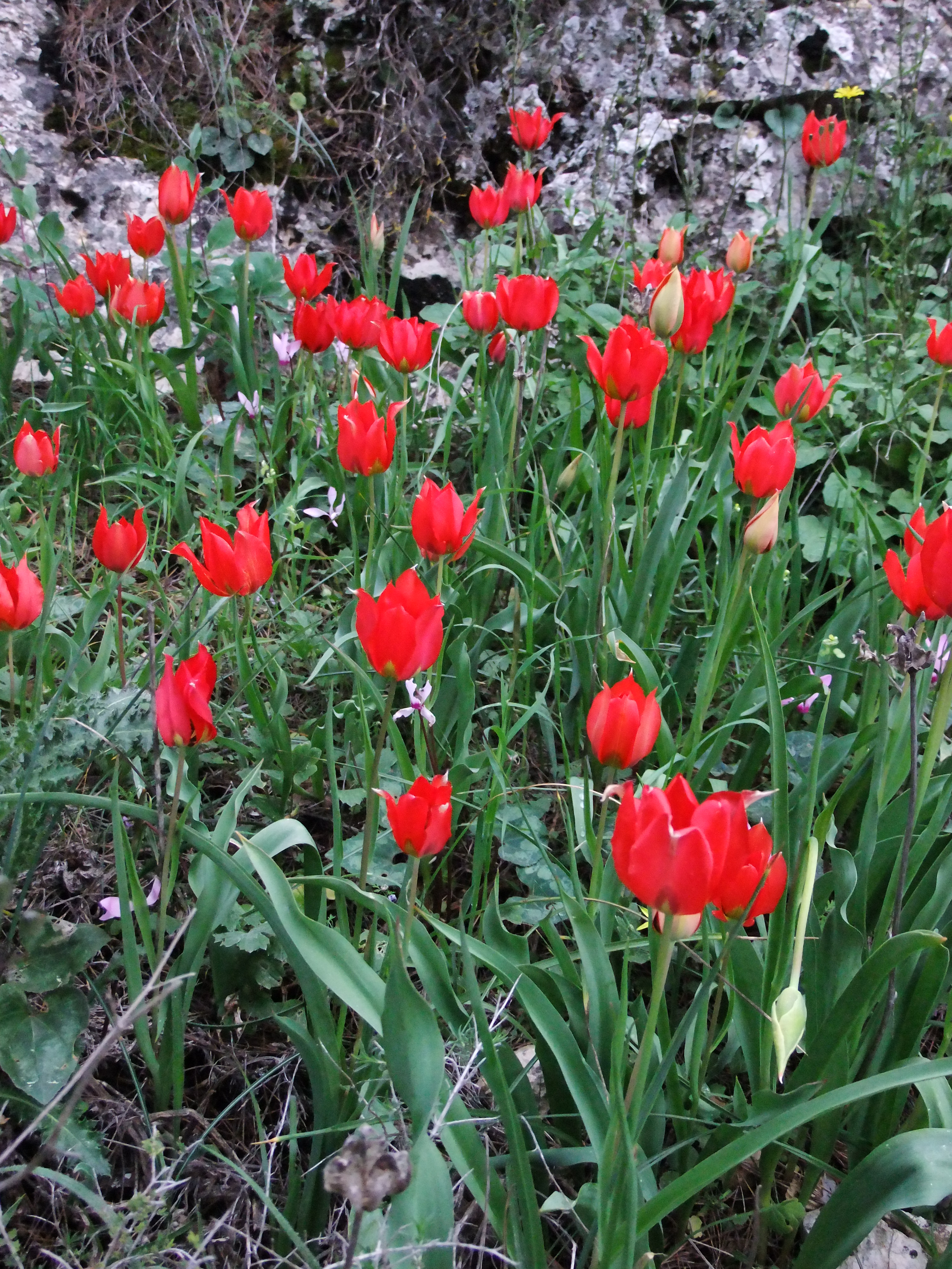 Tulips